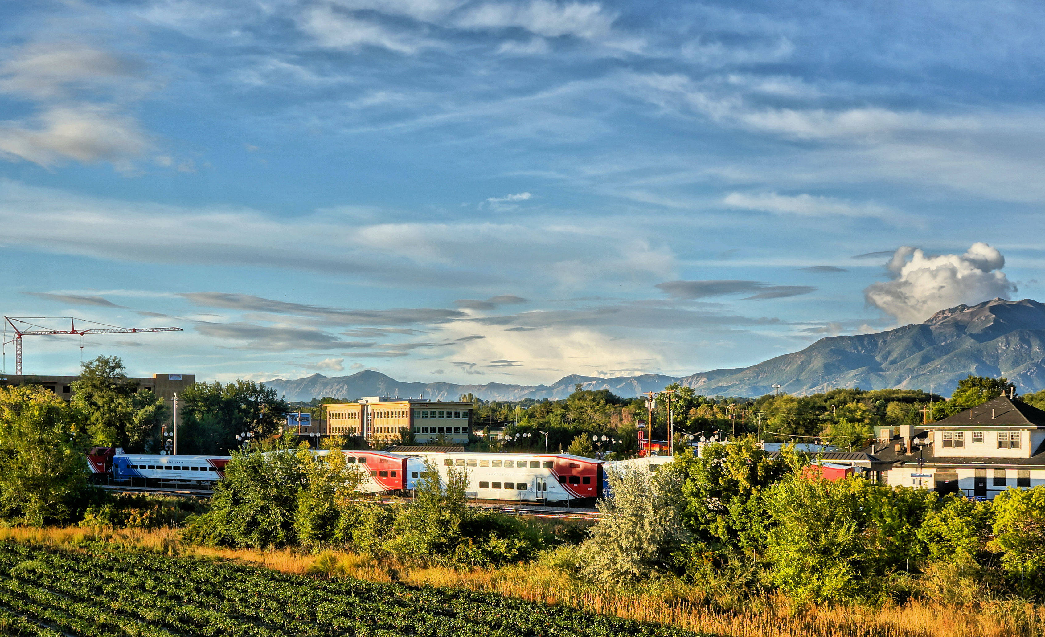 FrontRunner at Train Station in Historic Downtown Layton